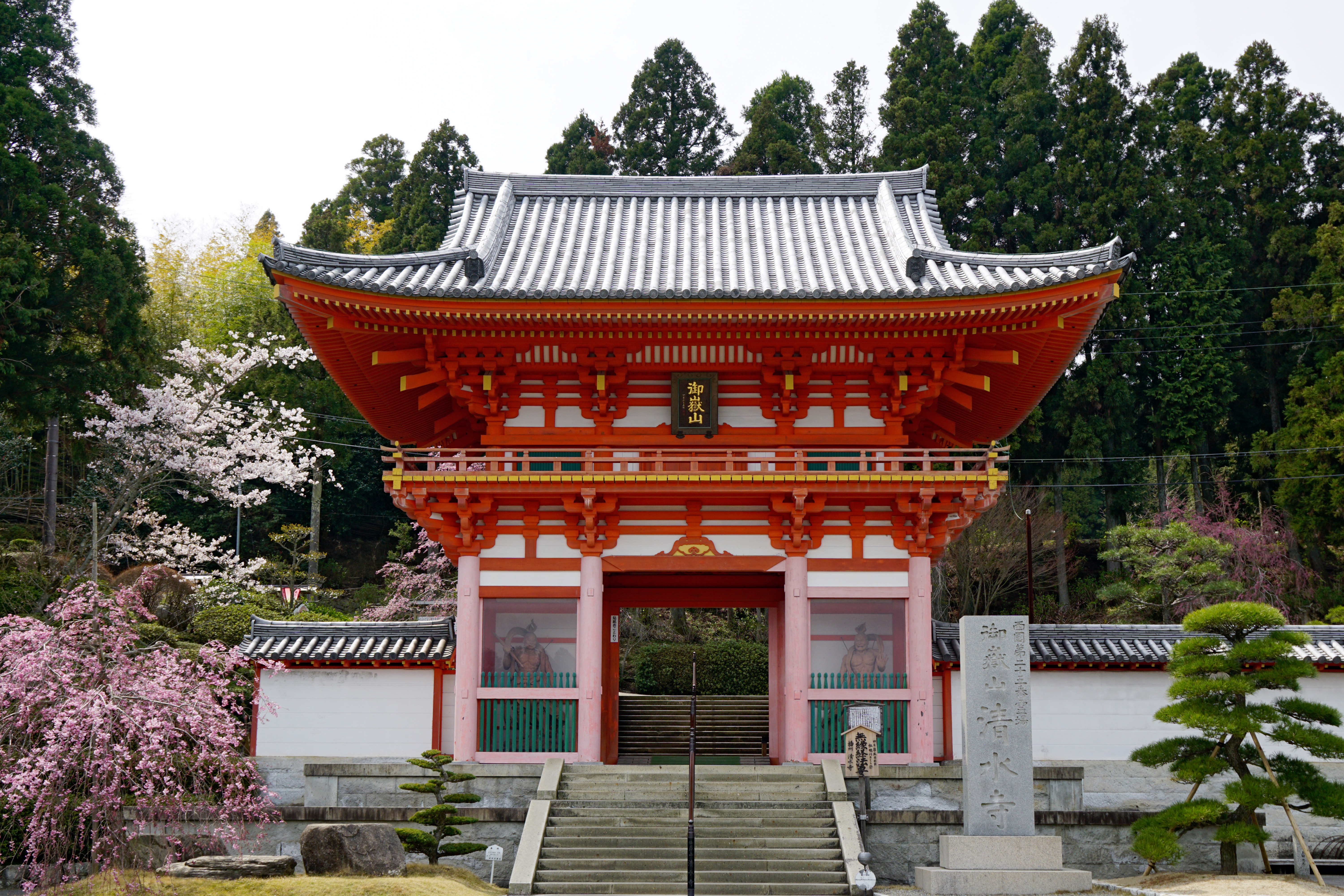 Kiyomizu-dera in Kato, Hyogo prefecture, Japan.